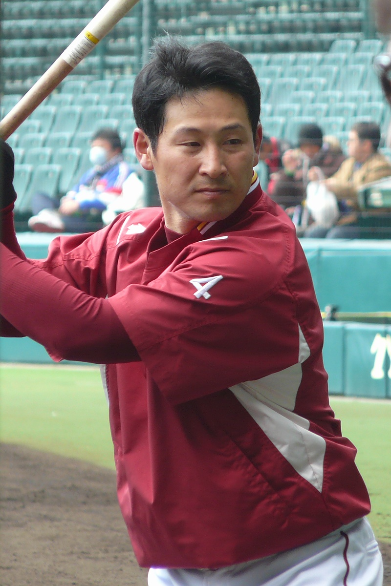 RE-Yosuke-Takasu20110309